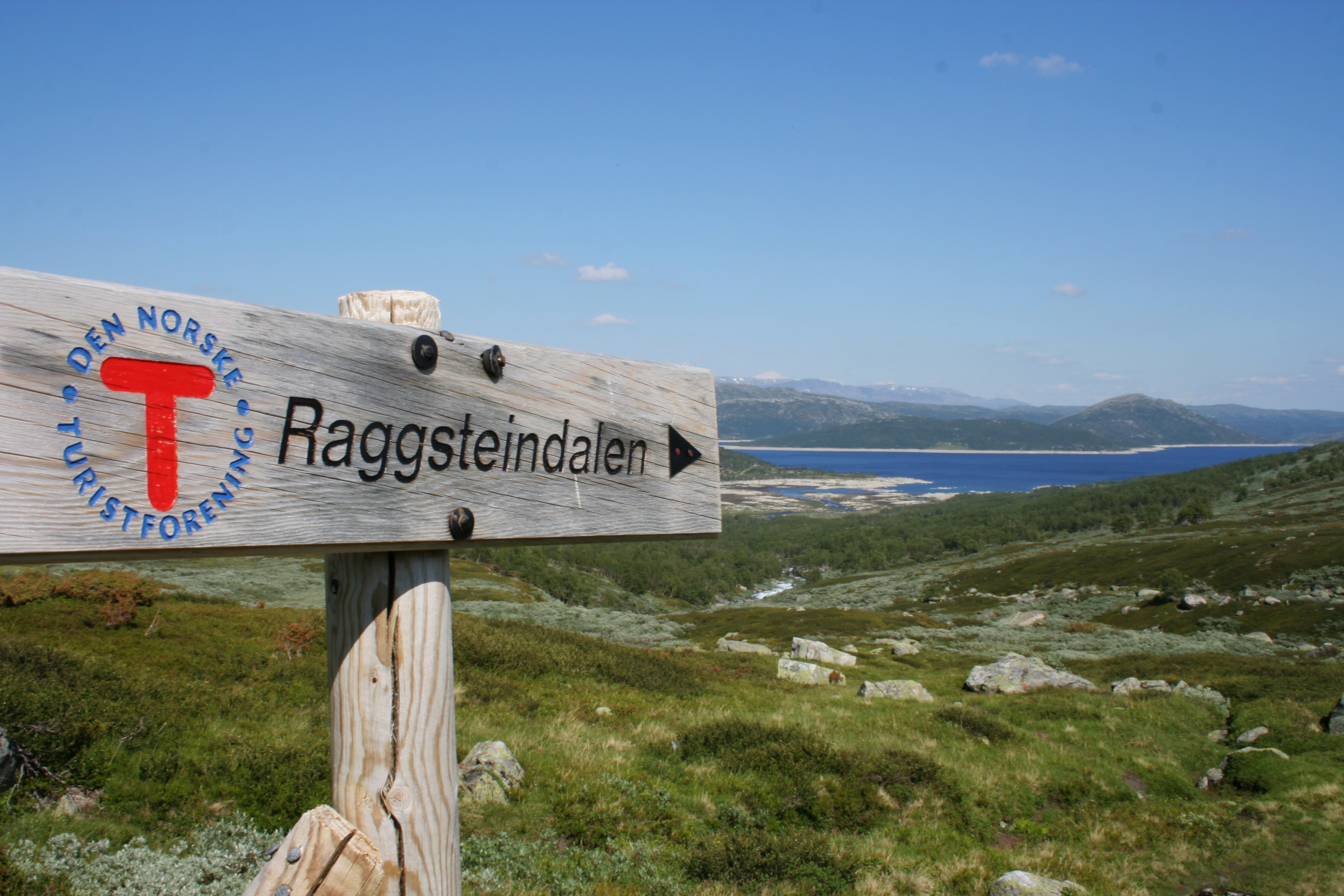 A sign poiting towards Raggsteindalen Høyfjellsstue. The hotel is situated on the peninsula just where the sign is pointing on the photo.